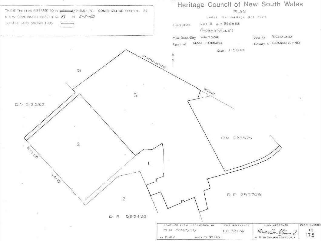 Hobartville: PCO Plan Number 035